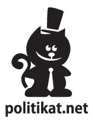 Official logo of the website.